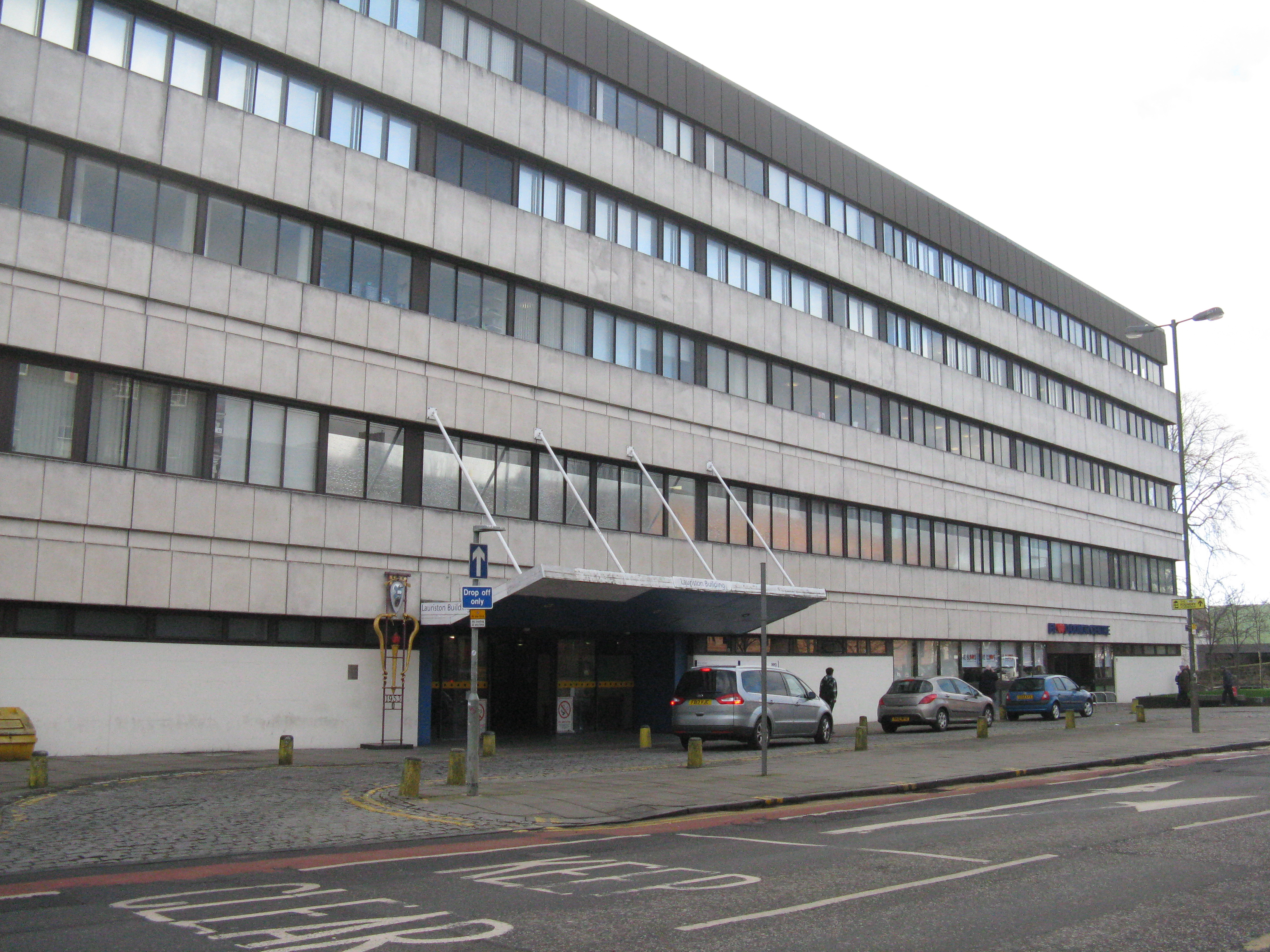 Lauriston Building and Blood Donor Centre